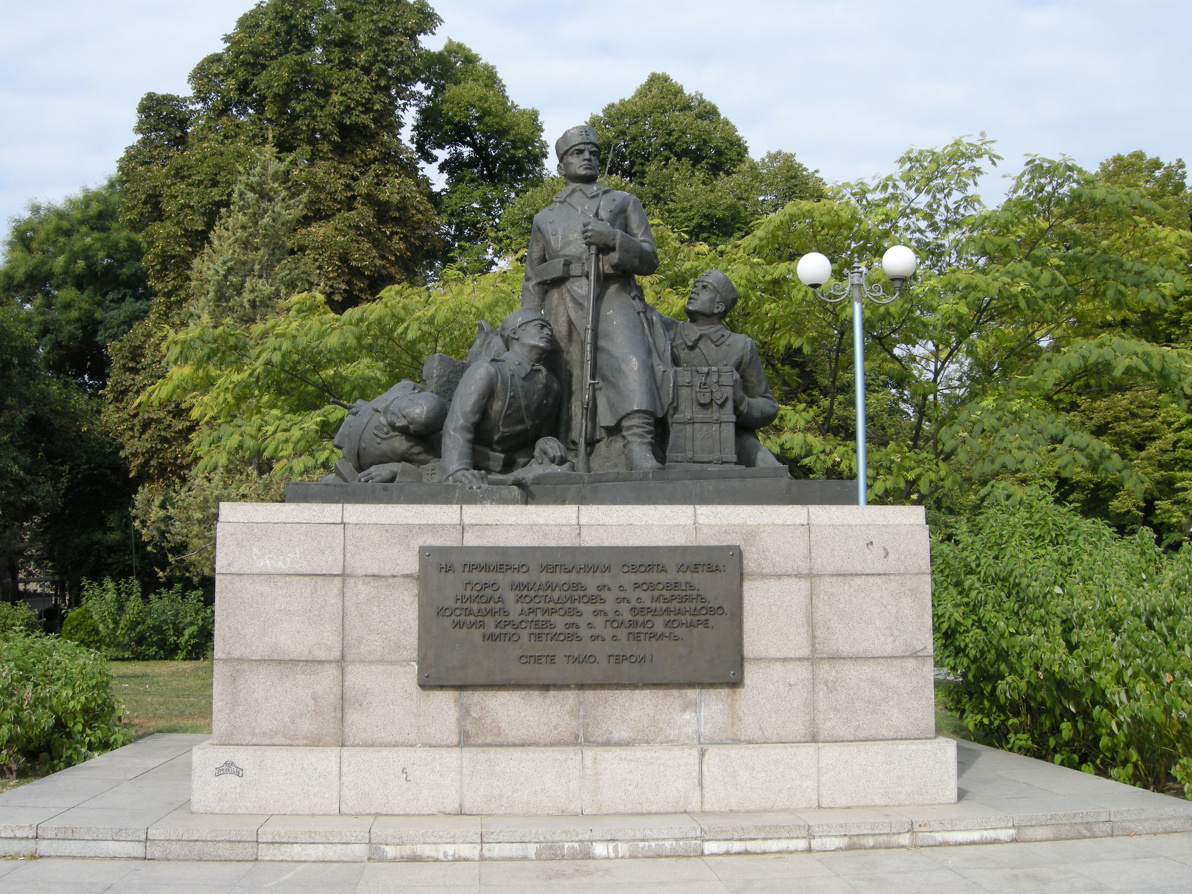 The monument of the Bulgarian soldier Gyuro Mihailov, who died in a fire at his post in the Bank of Plovdiv at 25 December 1880.